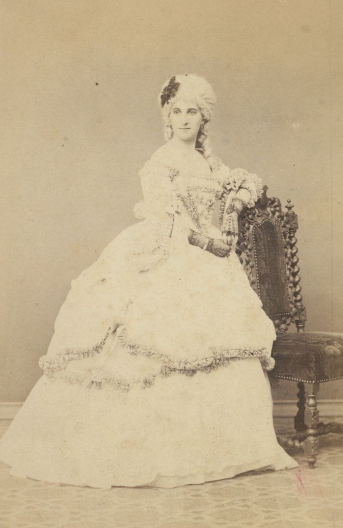 Anna Marek (d. 1916), Austrian coloratura singer, in a 18th century costume. Photograph by Rabending and Monckhoven workshop